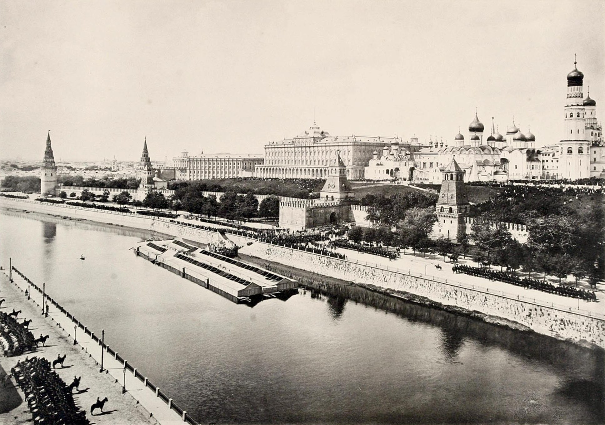 Plate 1: View of Moscow Kremlin - celebration of 900 years since adoption of Christianity in [Kievan] Rus. July 15, 1888 (old style). (Most likely photographed from the belltower of St. Sophia).